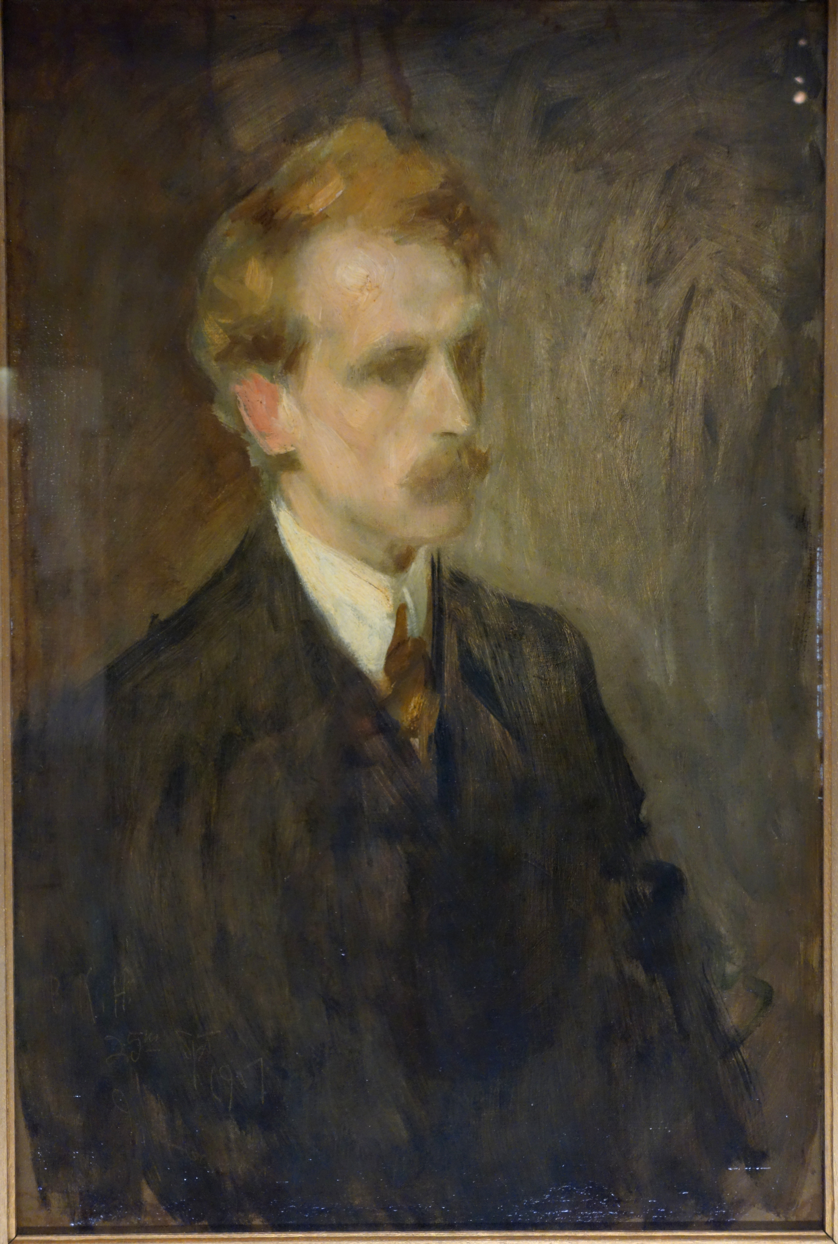 Exhibit in the Tokyo National Museum, Tokyo, Japan. This artwork is old enough so that it is in the public domain.